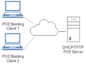 PXE diagram